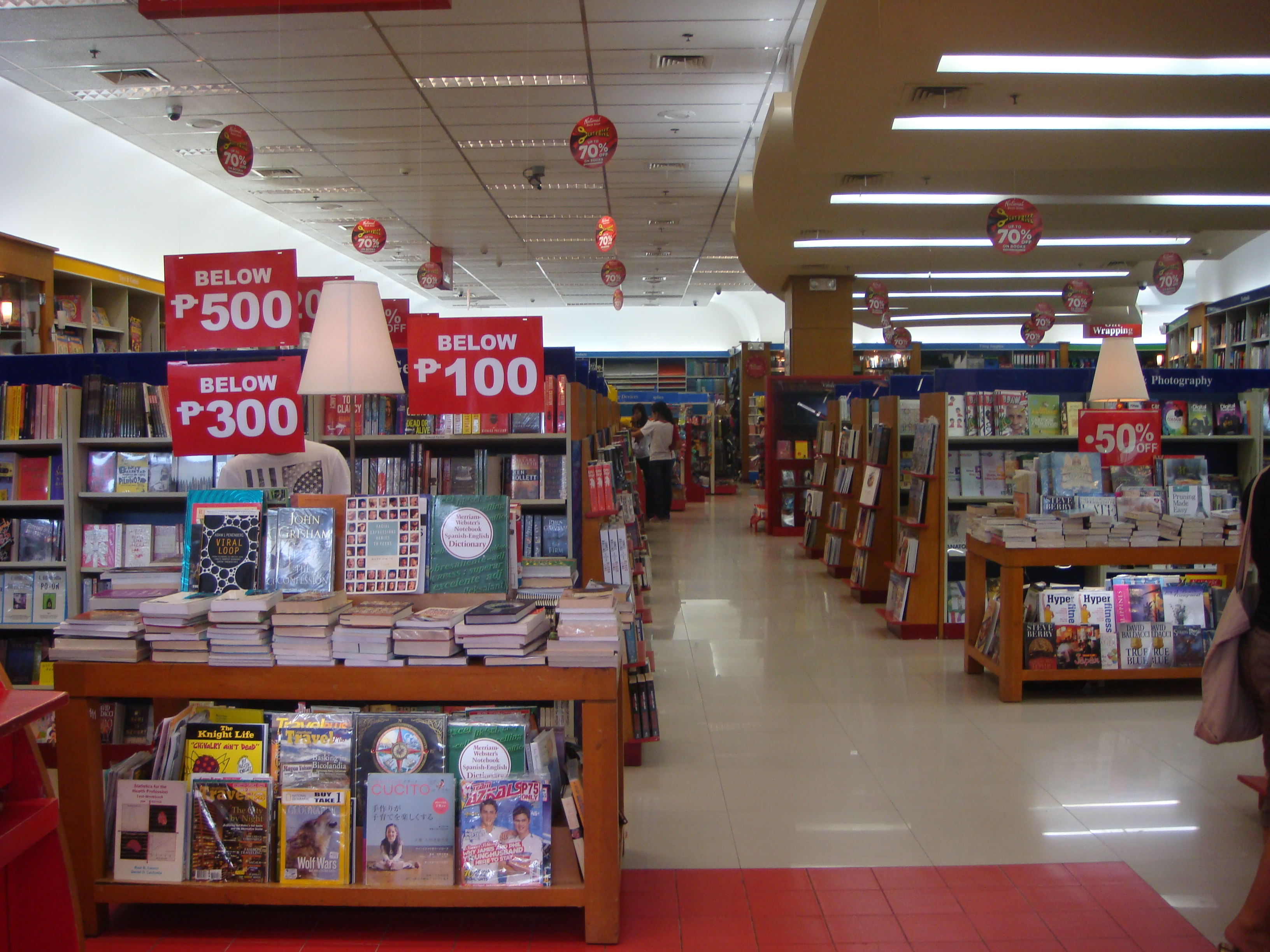 Interior of National Bookstore, SM City Baliuag, Bulacan